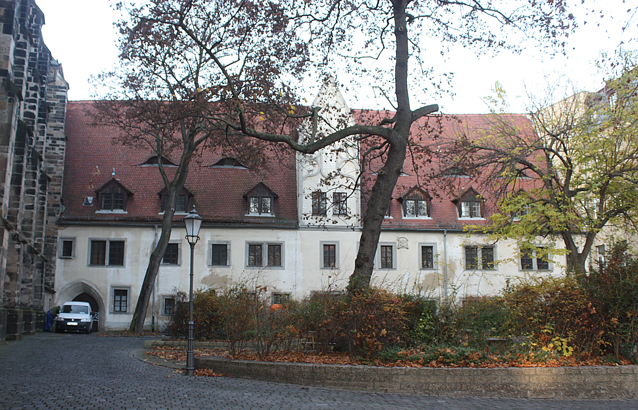 Halle (Saale), Moritzkirchhof